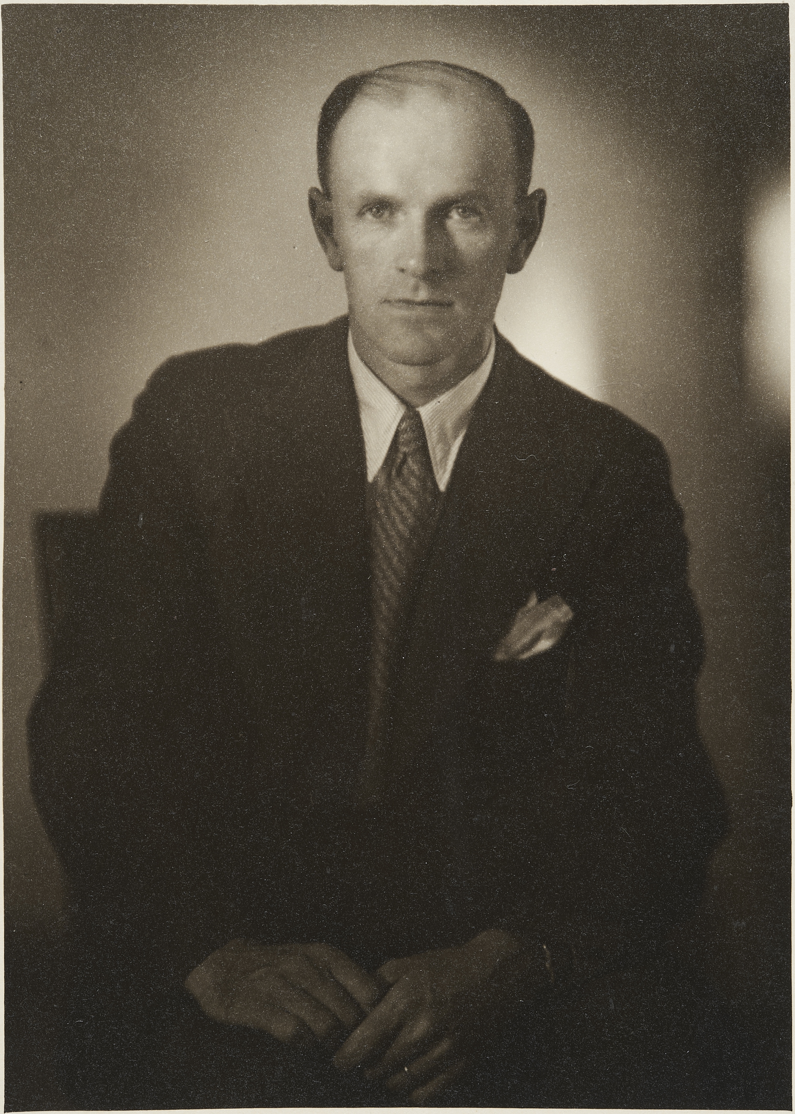 Photograph of the Finnish conductor Yngve Ingman (1895–1971).